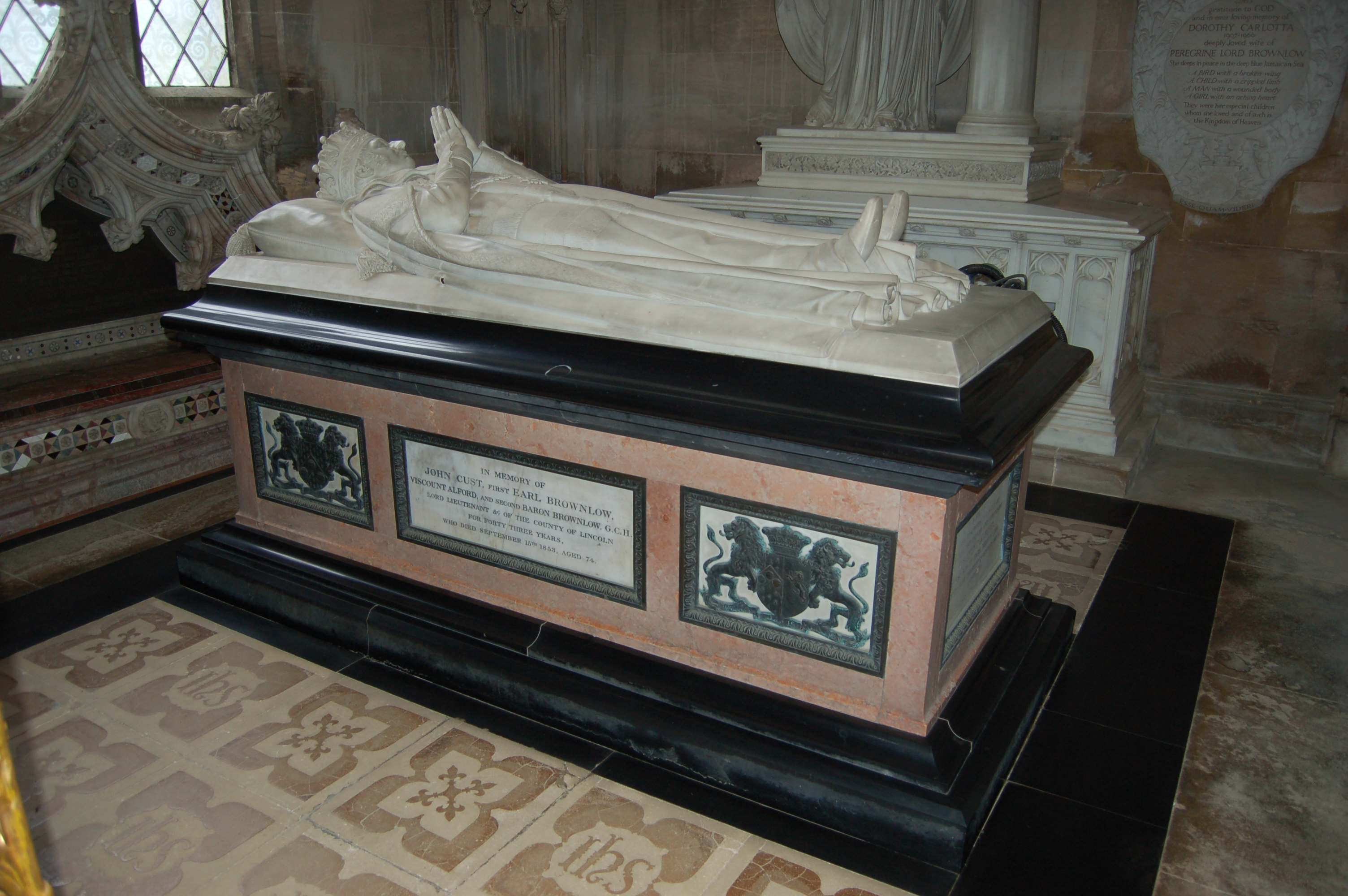 Tomb of John Cust, 1st Earl Brownlow in SS Peter and Paul parish church, Belton, Lincolnshire, England